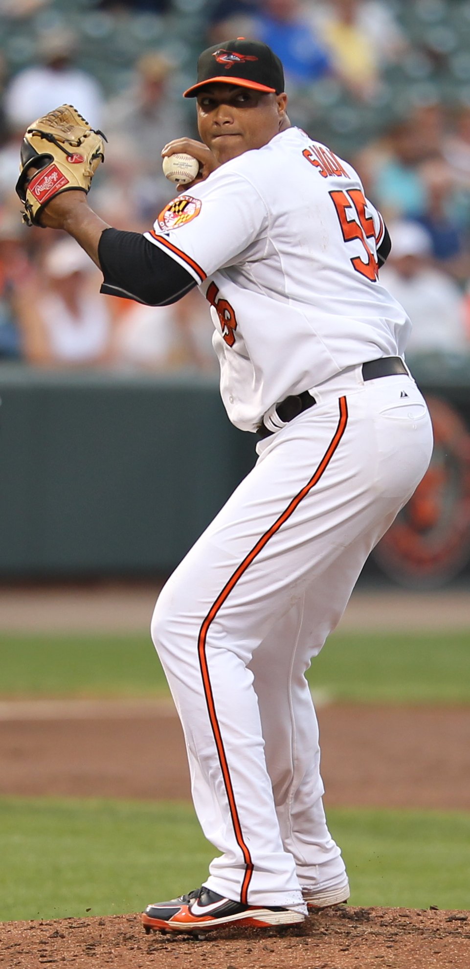 Starting pitcher Alfredo Simón #55 of the Baltimore Orioles throws to first base in a game against the Los Angeles Angels at Oriole Park at Camden Yards on July 22, 2011 in Baltimore, Maryland.